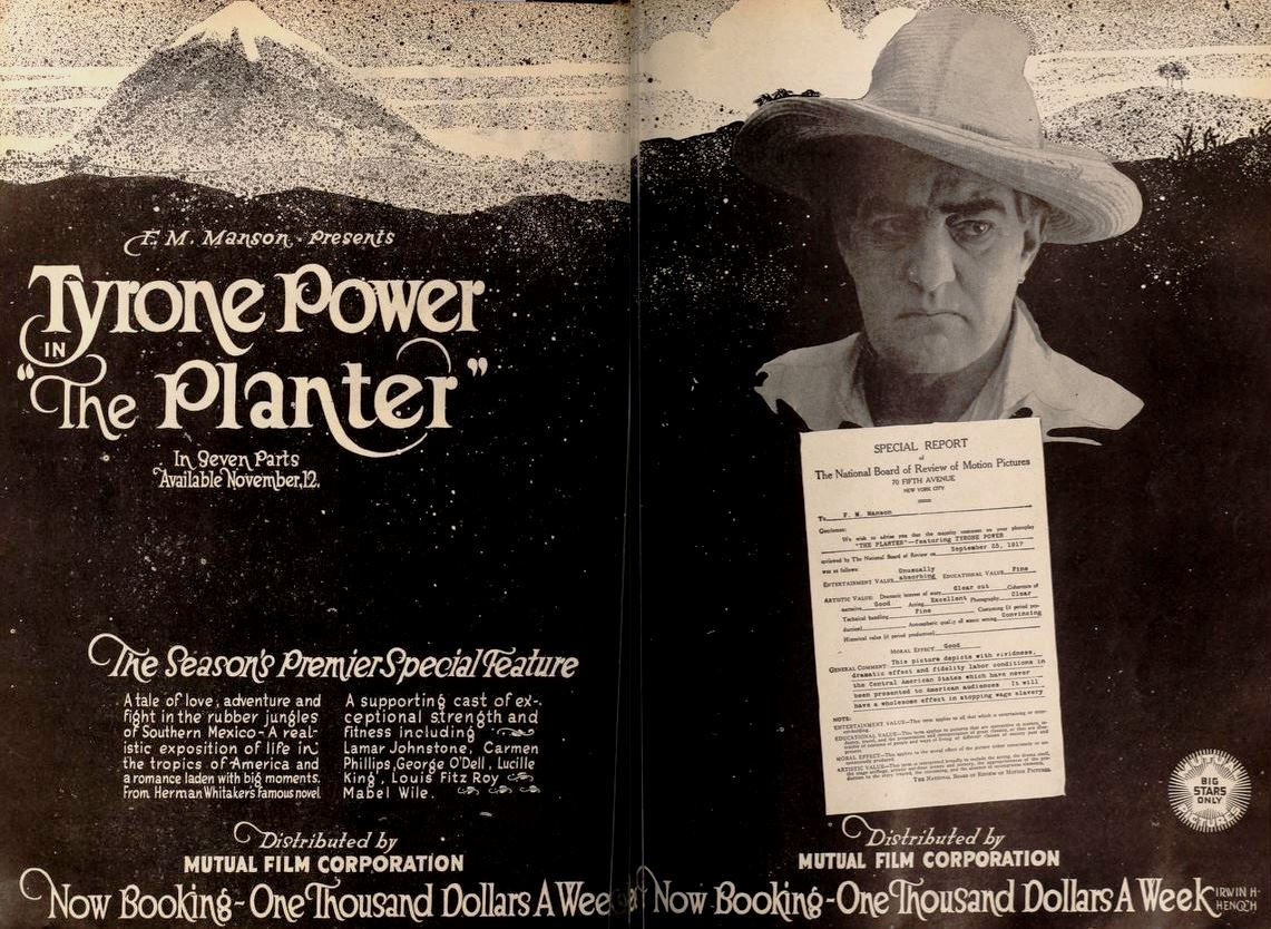 Advertisement for the American drama film The Planter (1917) with Tyrone Power, on pages 4 and 5 of the November 3, 1917 Exhibitors Herald.